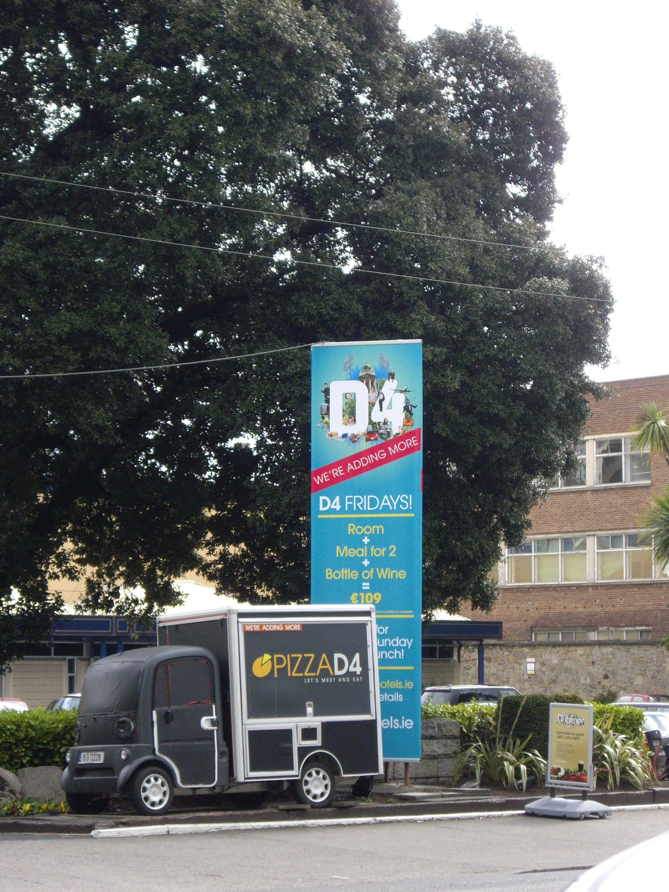 Sign in Ballsbridge, Dublin 4, for "D4 Hotels", named after the postcode